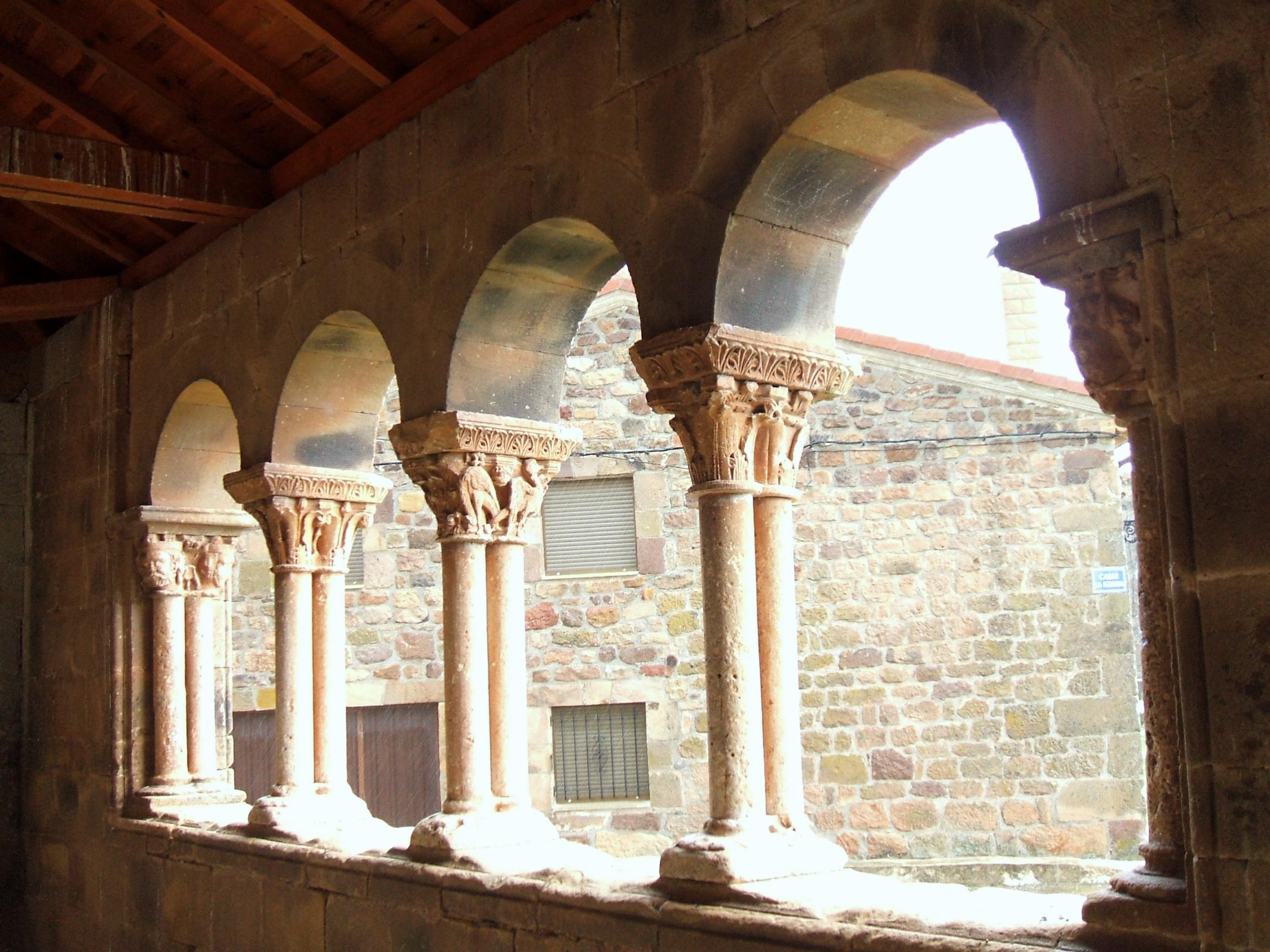 Iglesia románica de Nuestra Señora de la Asunción, en Jaramillo de la Fuente (Burgos, Castilla y León, España)